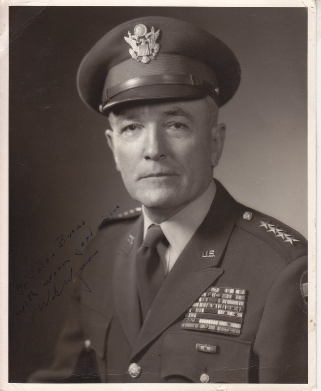 General Willard G. Wyman USA